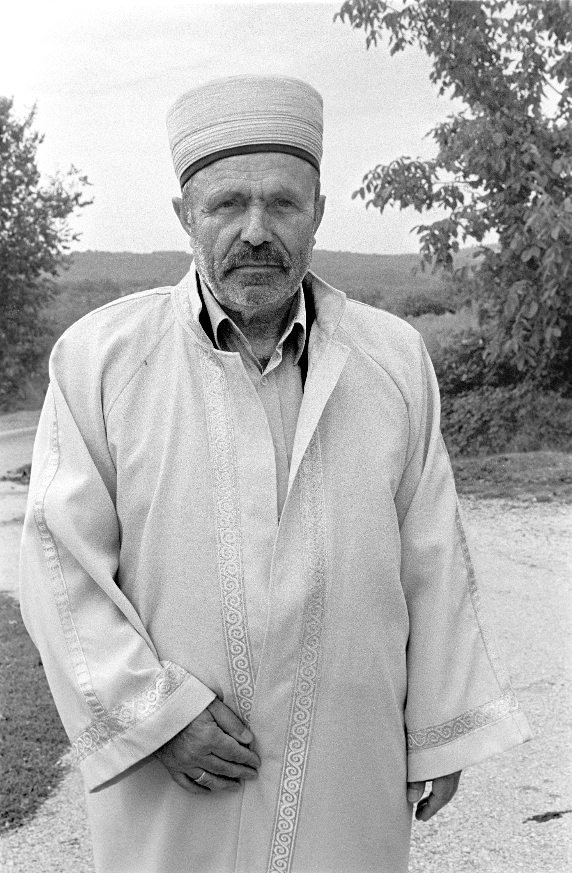 Serif Damadoglou: Mufti of Didymoteicho, Evros, Greece.